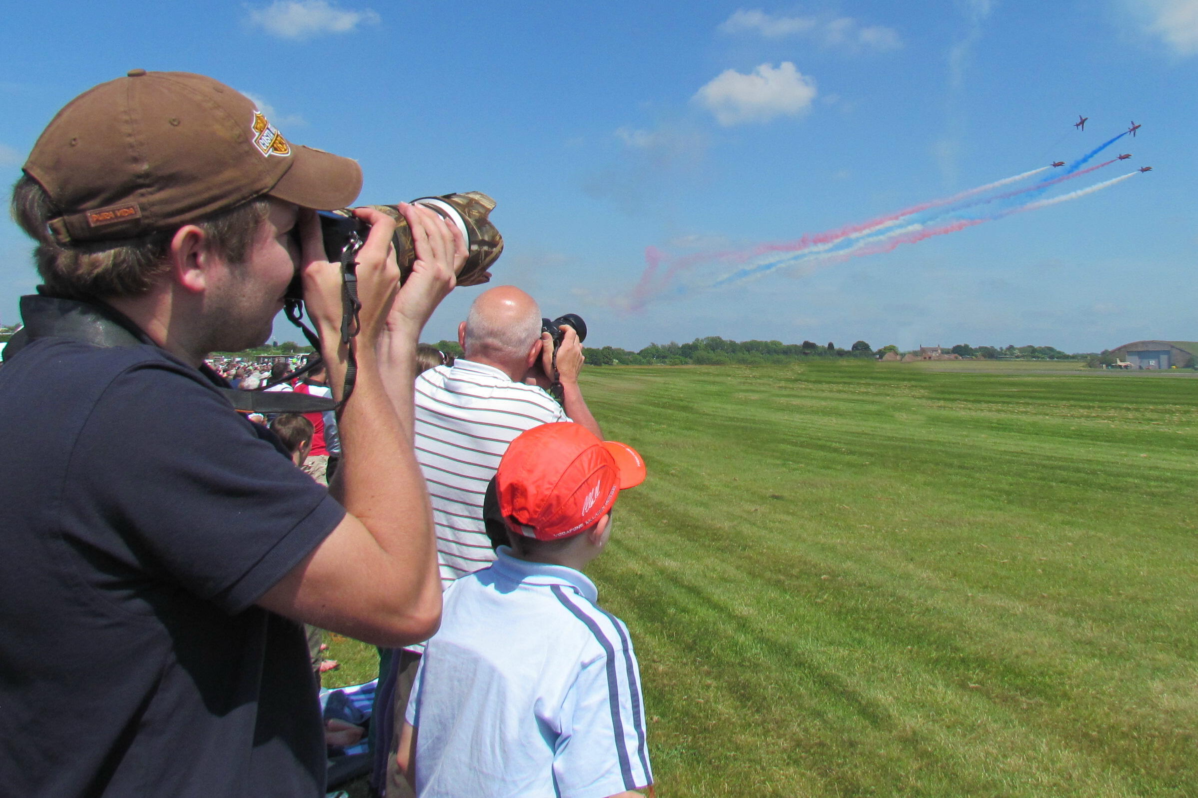 The Red Arrows RAF Cosford Airshow 2013